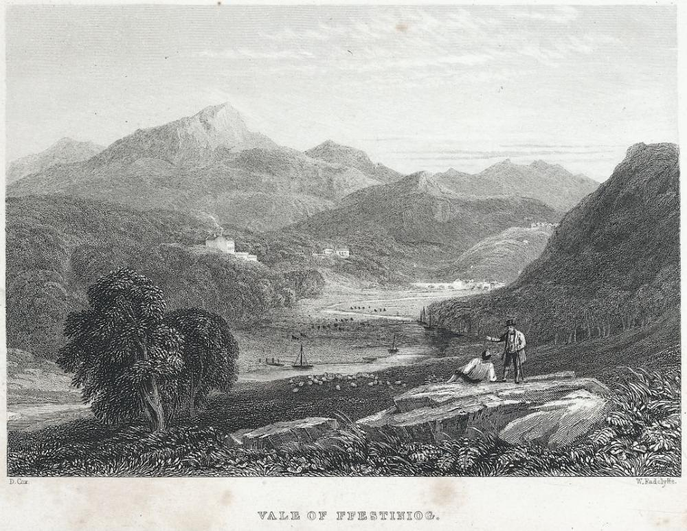 Two figures in foreground.